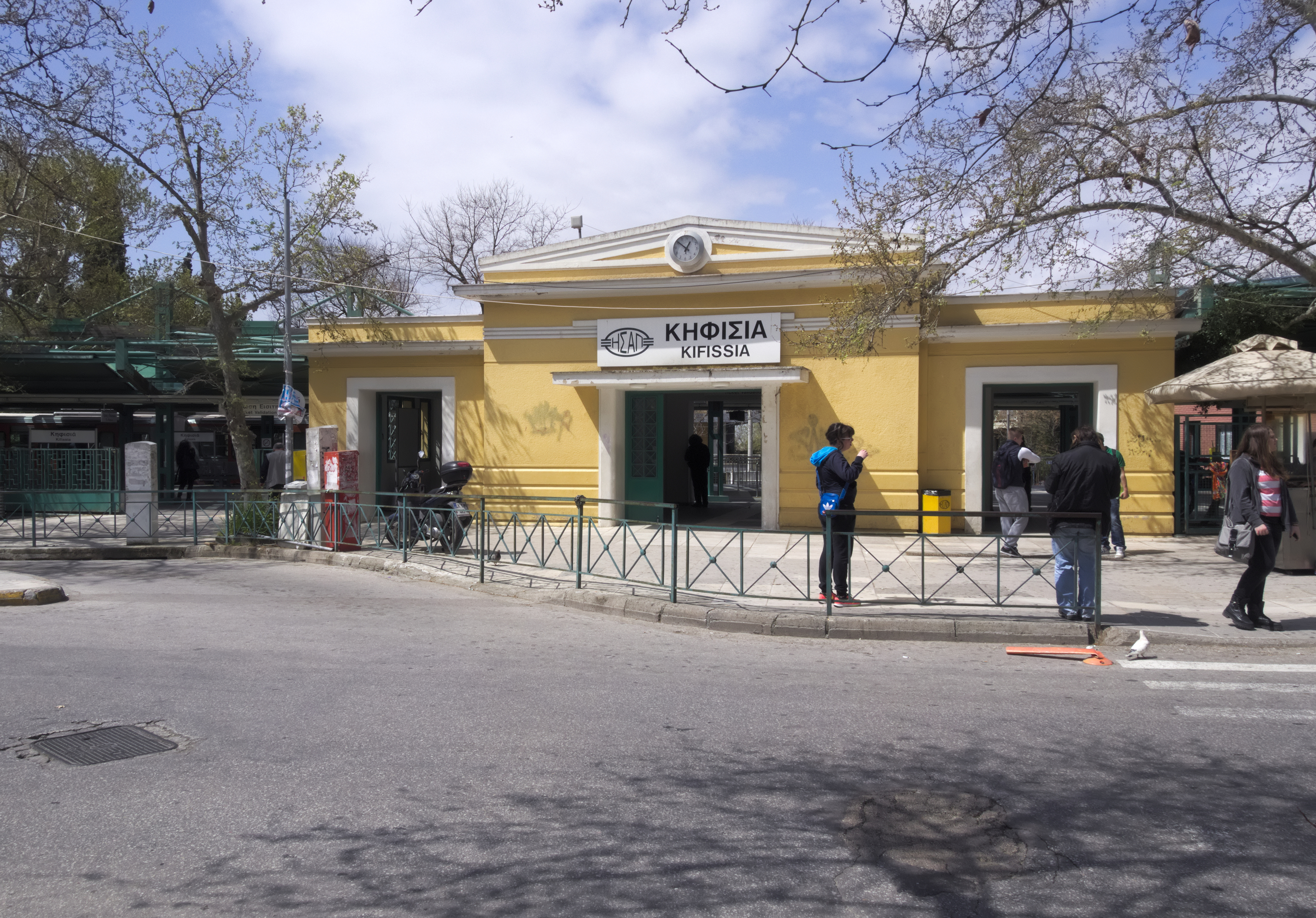 Kifisia metro station (line 1) entrance.